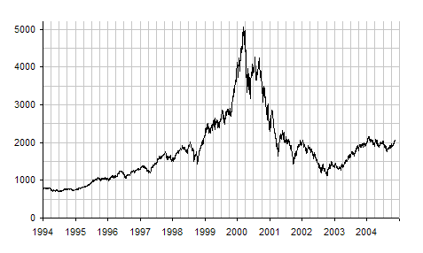 Small rendering of Image:NASDAQ IXIC - dot-com bubble.png. (Better than using thumbnailer).